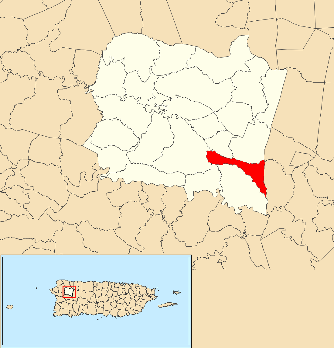 Perchas 1, San Sebastián, Puerto Rico locator map